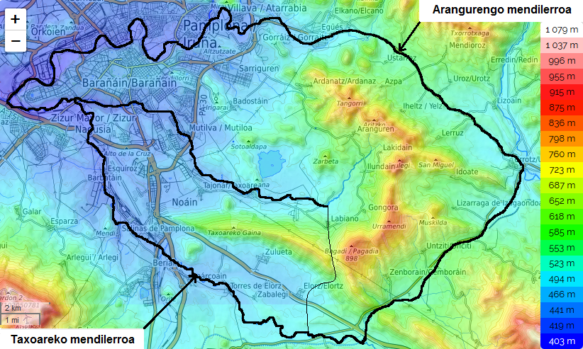 Topographic map showing the Taxoare and Aranguren Ranges.